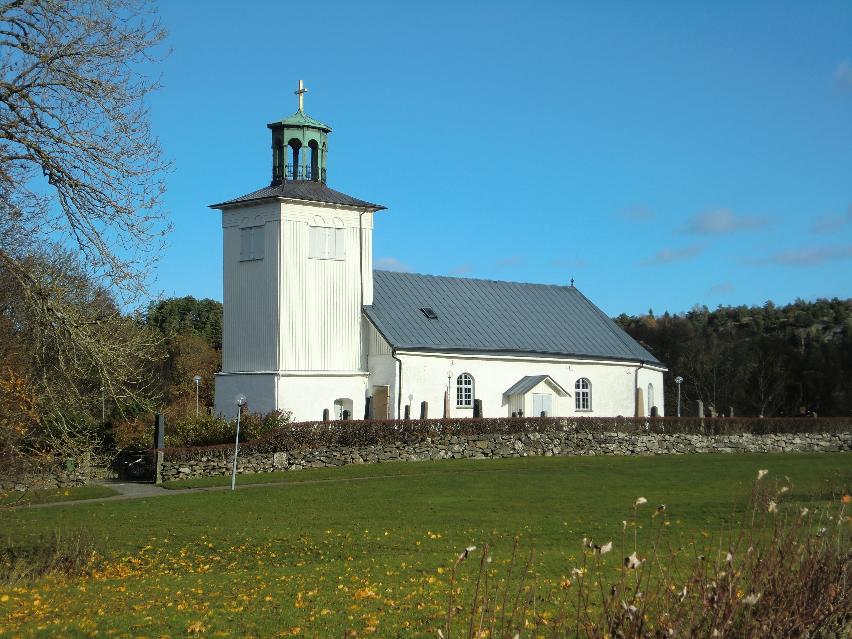 Nödinge parish church, in Ale municipality north of Gothenburg in Sweden.